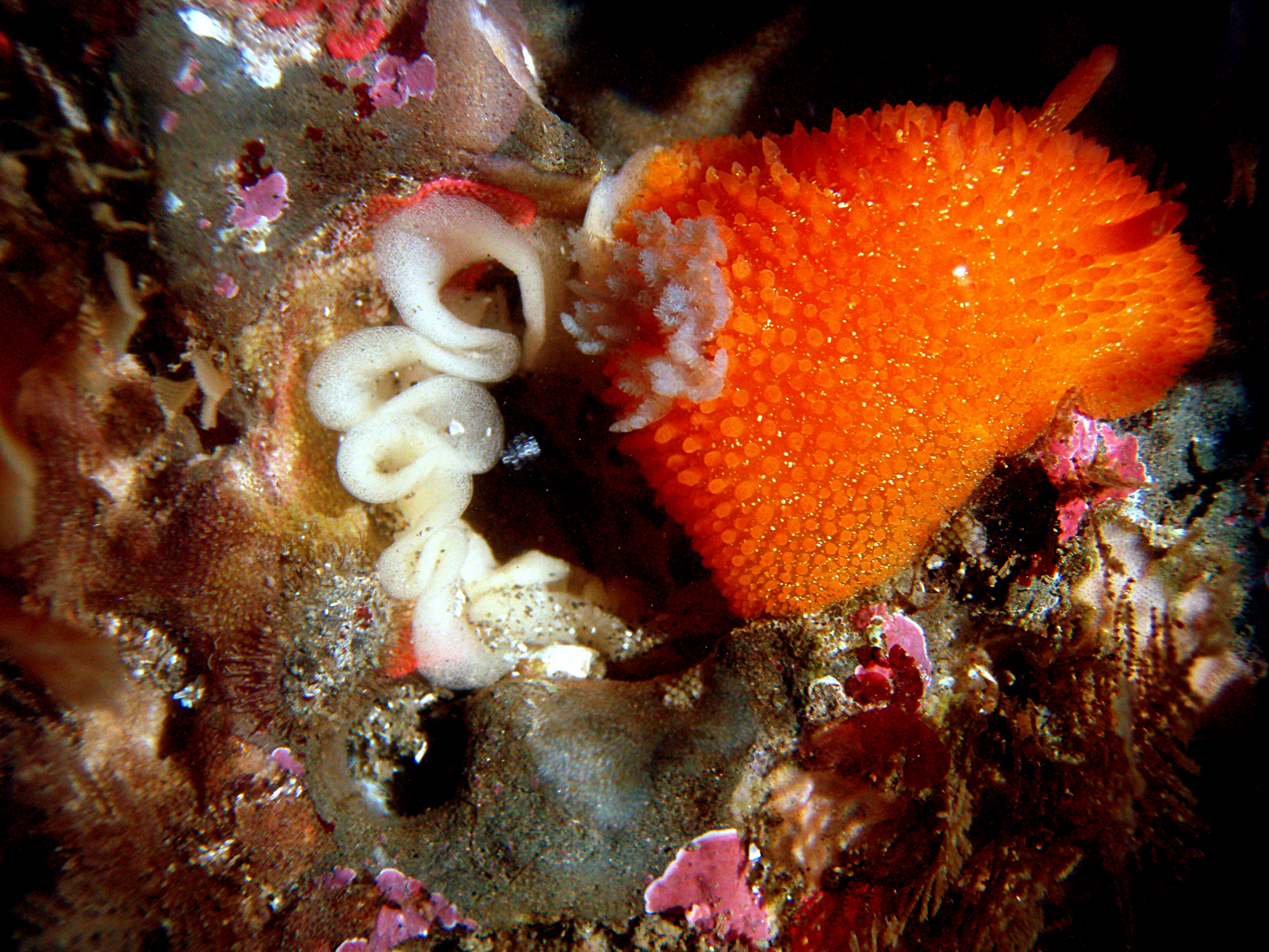 Nudibranch Acanthodoris lutea at California tide pools is laying eggs.